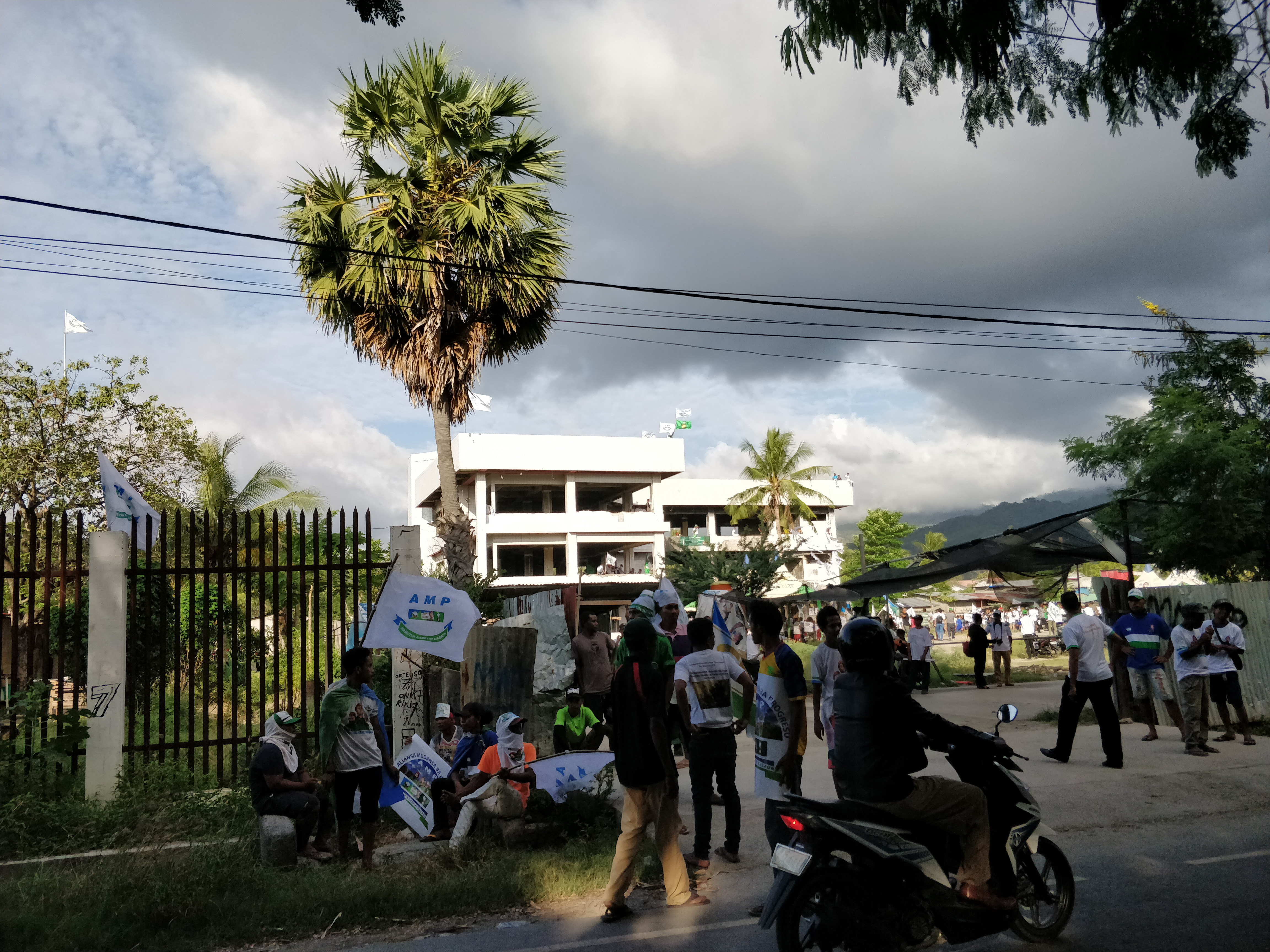 AMP Rally in Dili, Timor-Leste